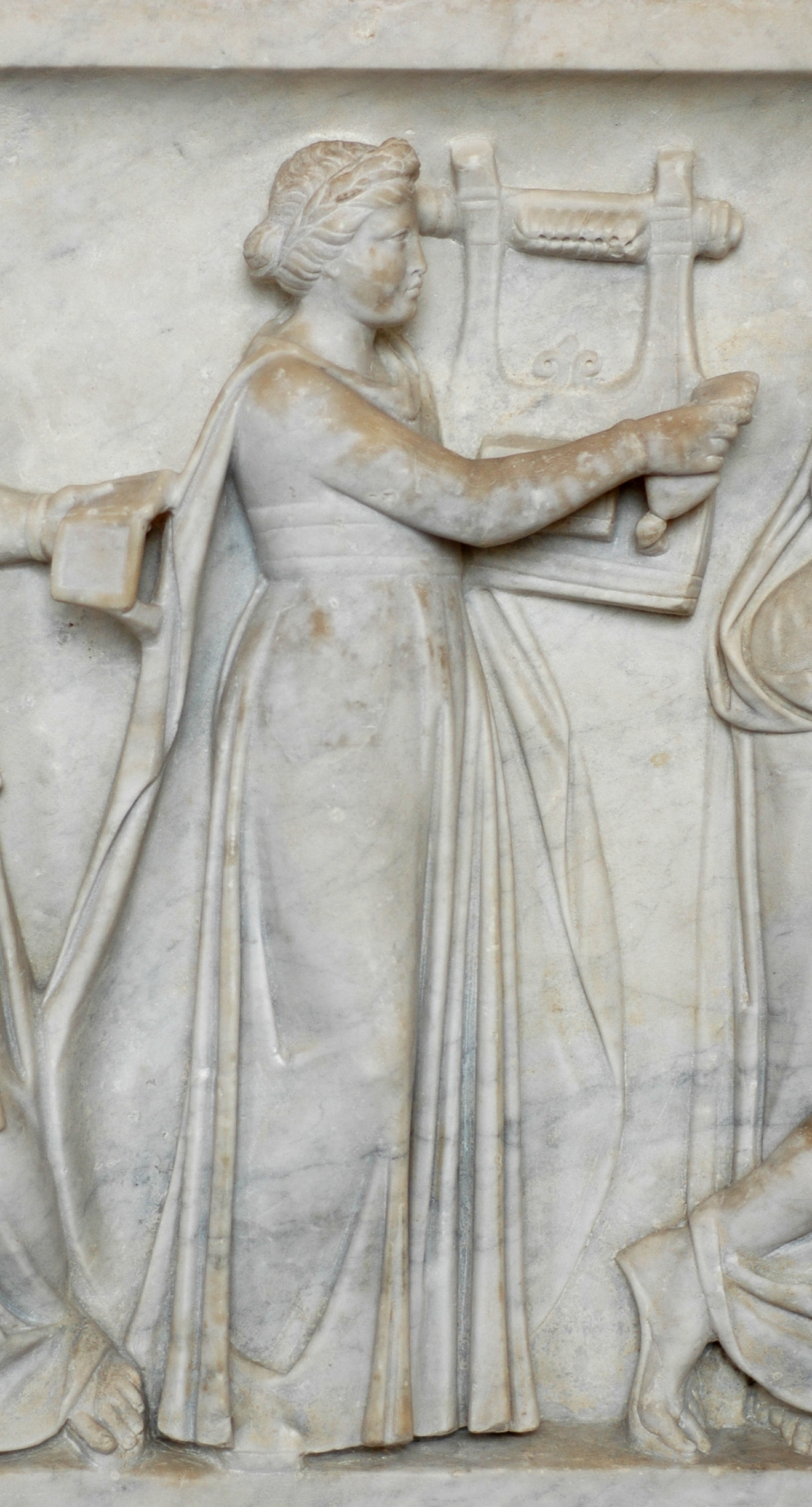 Erato, muse of lyric poetry, holding a lyre. Detail from the “Muses Sarcophagus”, representing the nine Muses and their attributes. Marble, first half of the 2nd century AD, found by the Via Ostiense.